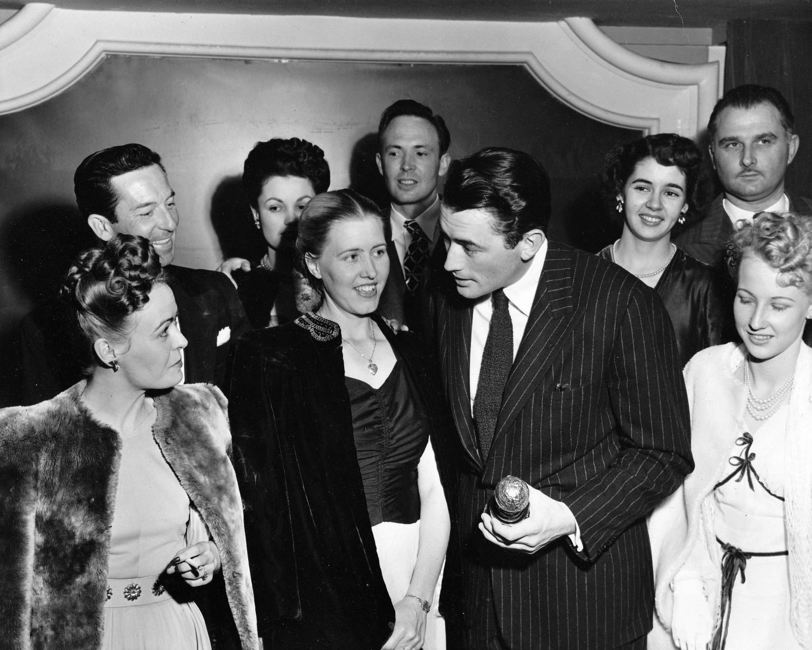 Gregory Peck with the Golden Globe for the film "The Yearling" (1947)